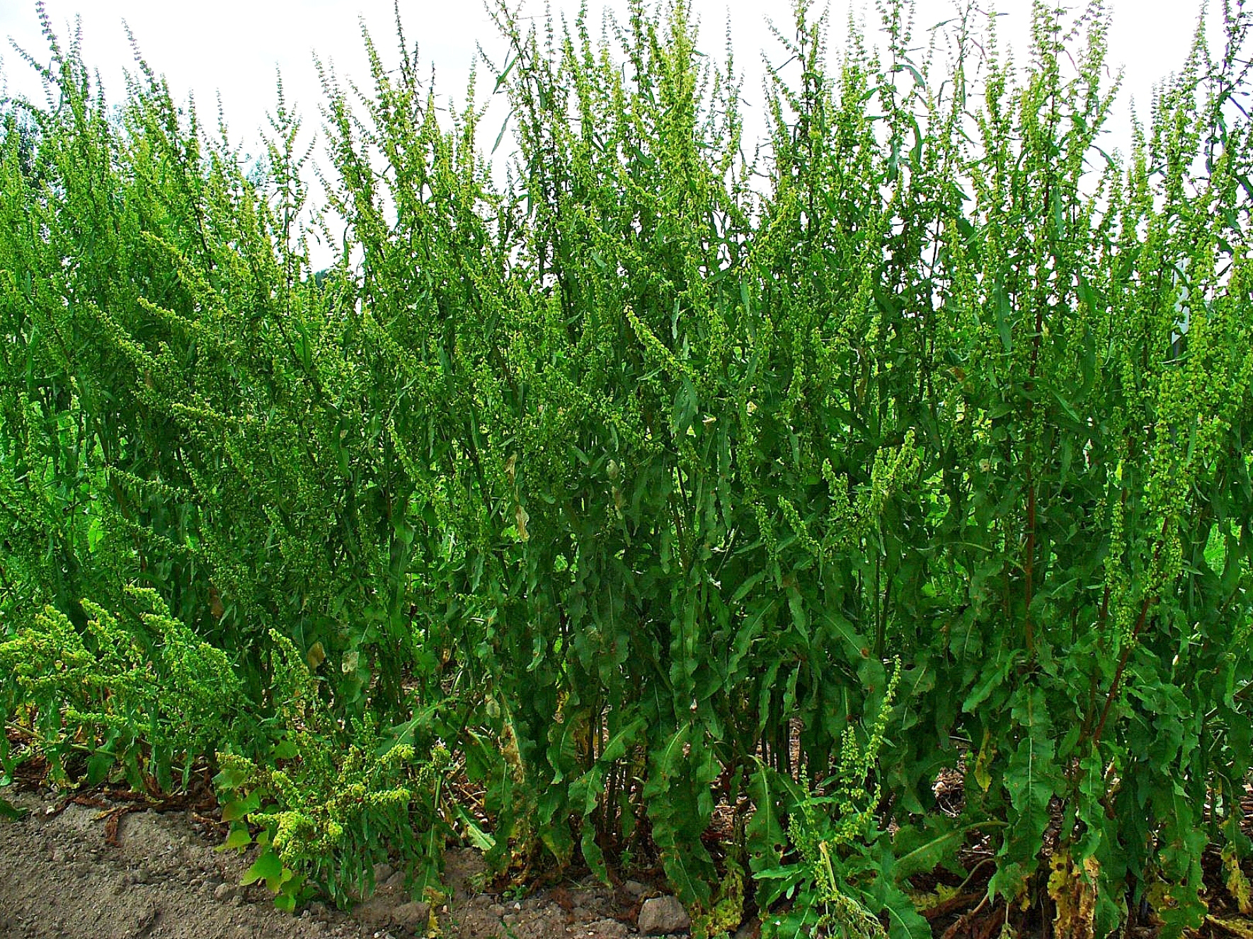 Rumex crispus, Polygonaceae, Curly Dock, Yellow Dock, Sour Dock, Narrow Dock, habitus.